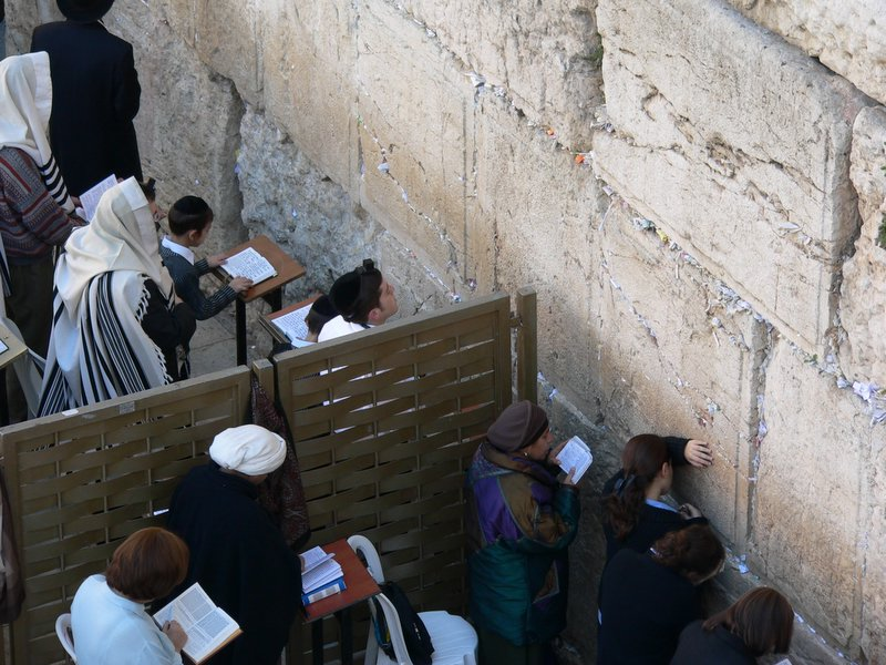 Men and women separated at the Western Wall (Kotel) of Jerusalem, because of the sexual separation asked by Orthodox Judaïsm.